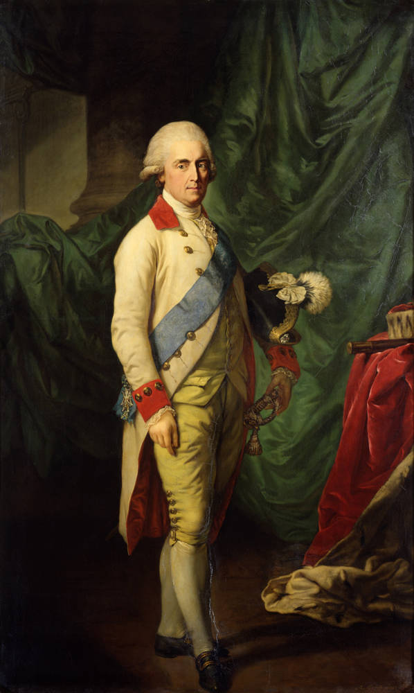 Portrait of Frederick Augustus I of Saxony (1750-1827)